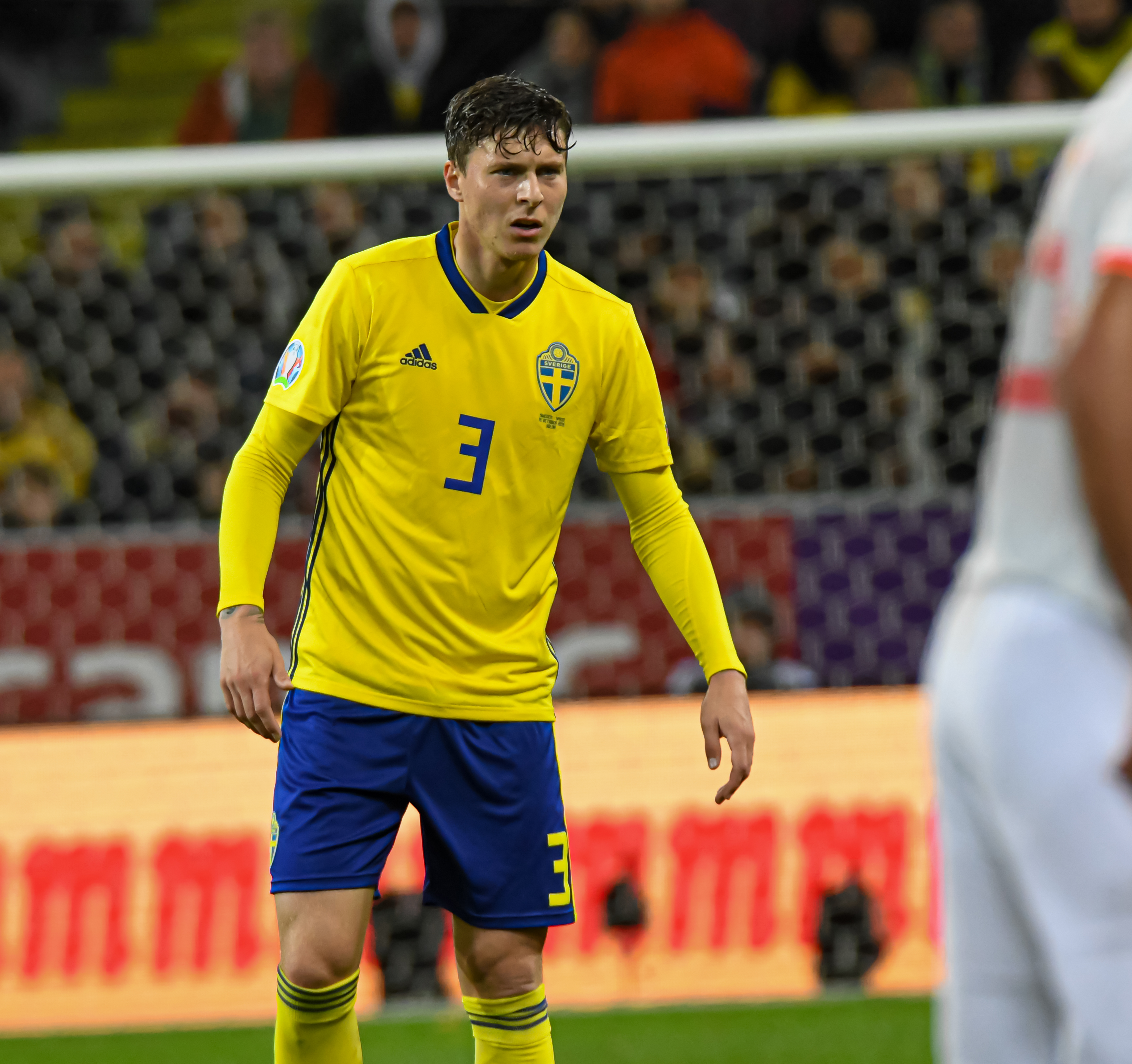 UEFA_EURO_qualifiers_Sweden_vs_Spain_20191015